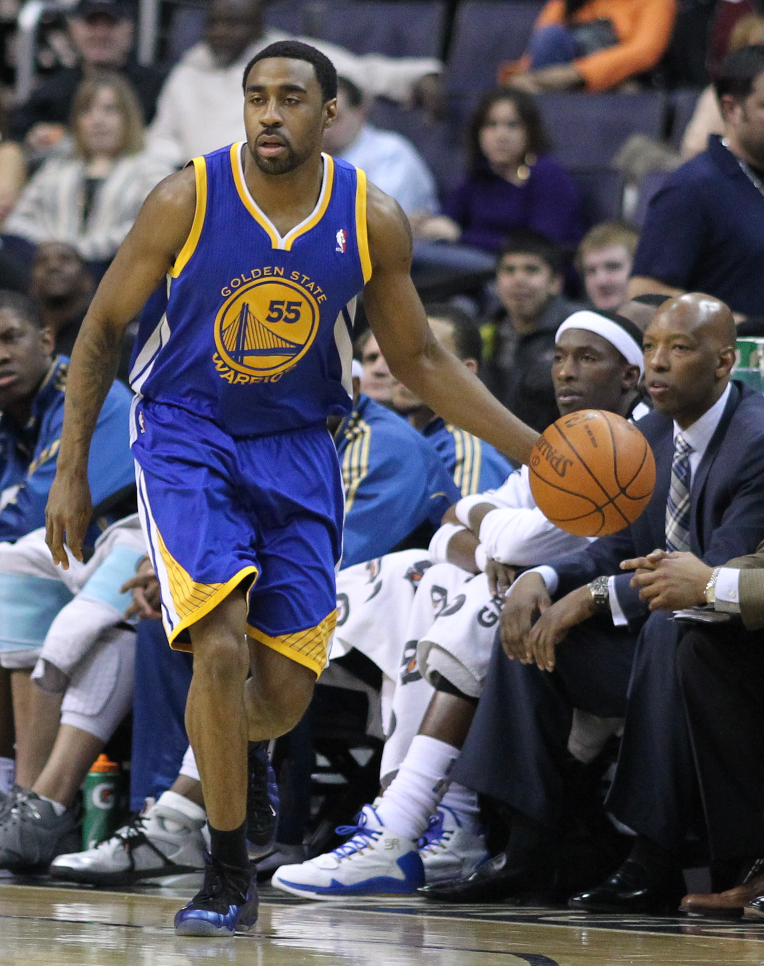 Wizards v/s Warriors 03/02/11